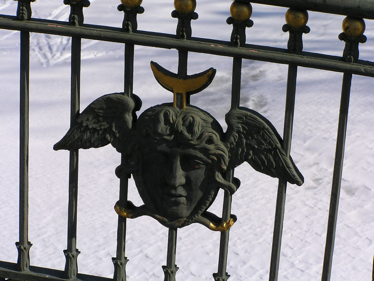 Saint Petersburg,Russia-Magic winter impressions